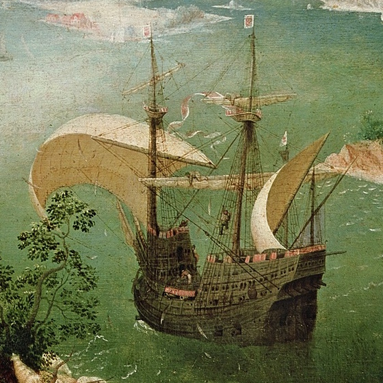 Carrack - detail by Pieter Bruegel the Elder